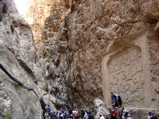 I am the photographer